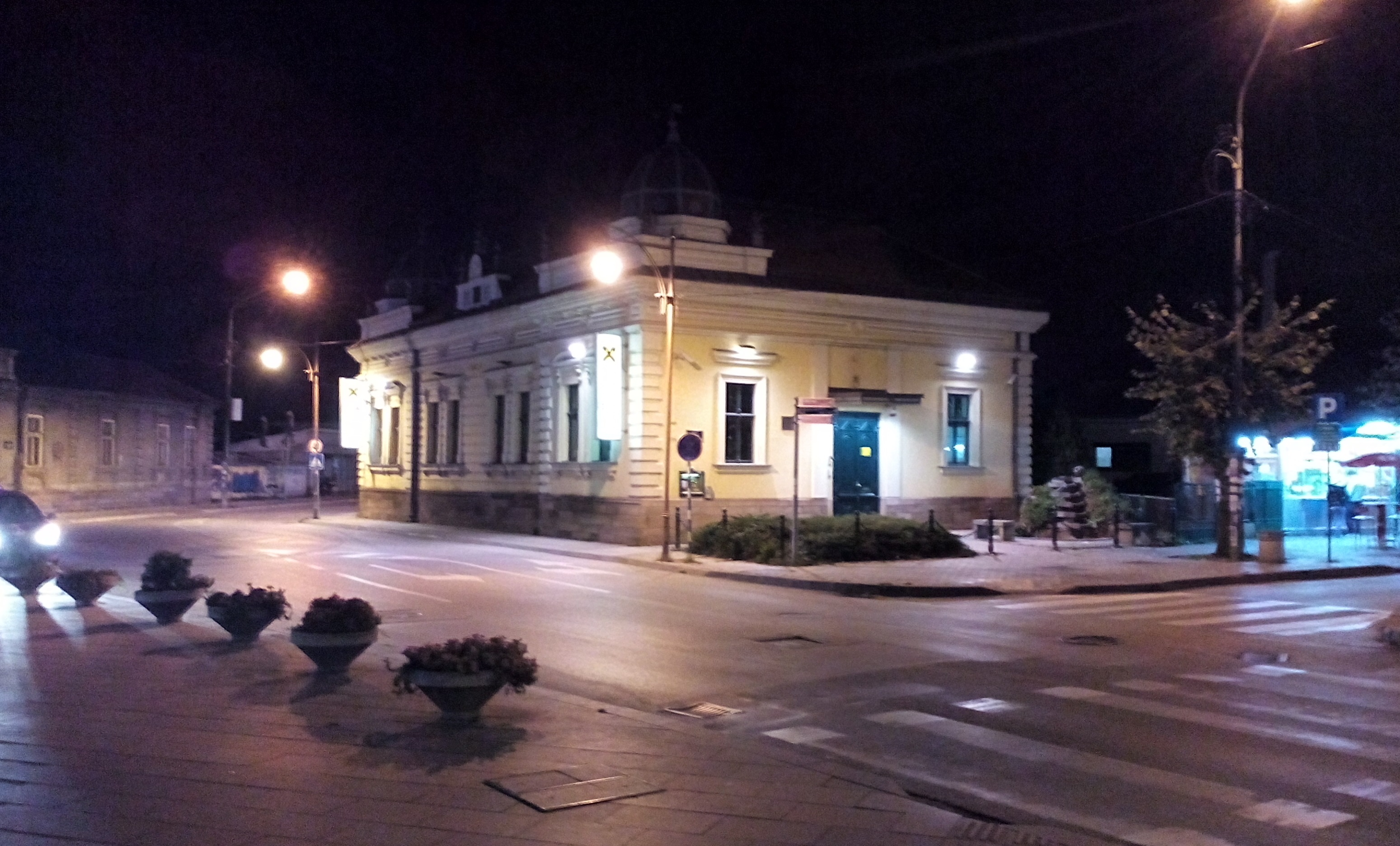 The main branch of Raiffeisen Bank in the City of Čačak, Serbia.Српски (ћирилица): Главна експозитура Рајфајзен банке у граду Чачку.